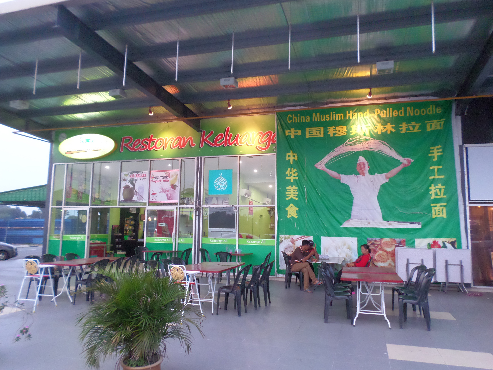 Keluarga Ali Chinese Muslim Restaurant, KiP Mart, Bachang, Malacca, MalaysiaBahasa Melayu: Masakan Cina Muslim dari Negeri Cina Keluarga Ali, KiP Mart, Bachang, Melaka, Malaysia